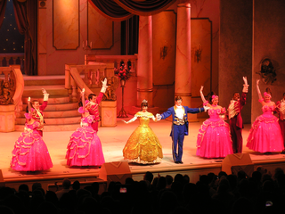 Finale of Beauty and the Beast stage show.